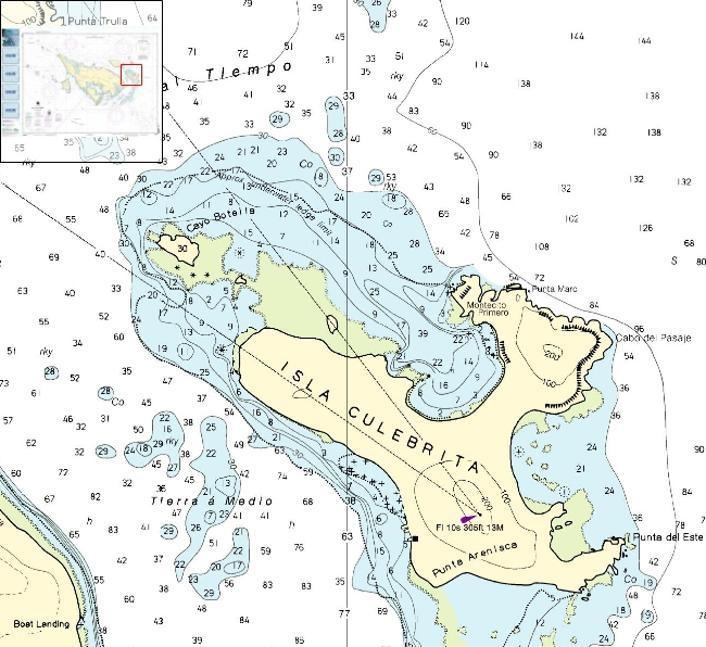 marine chart of Culebrita Island, off Culebra, Puerto Rico